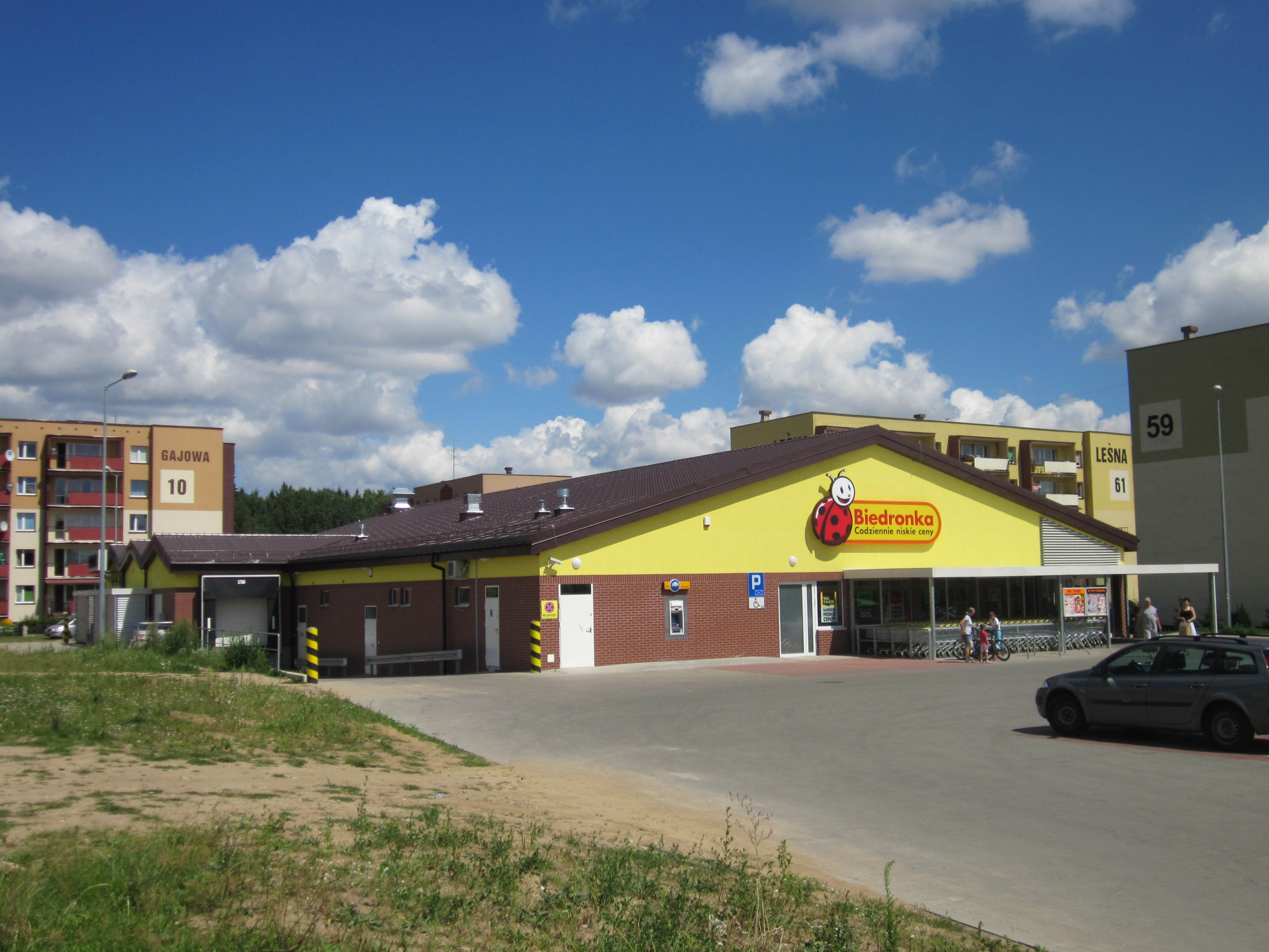 Biedronka in Mońki, at 61 Wojska Polskiego street